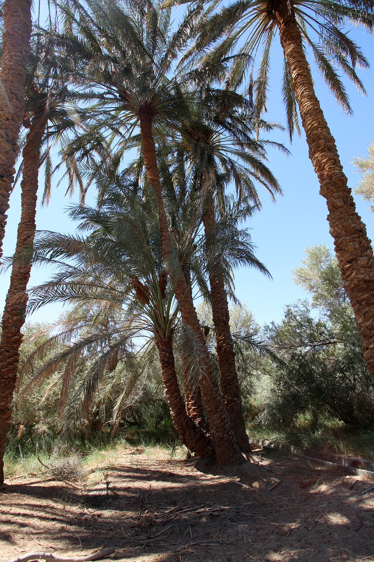 Palm trees at the well west of the village of Khamisa, Siwa depressen, Egypt